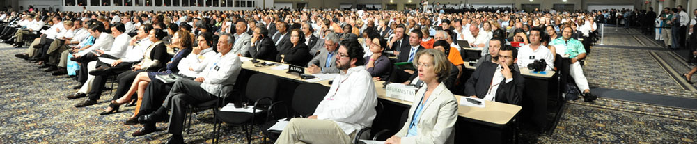 UN Climate Talks 2010. Cancun, Mexico. by United Nations